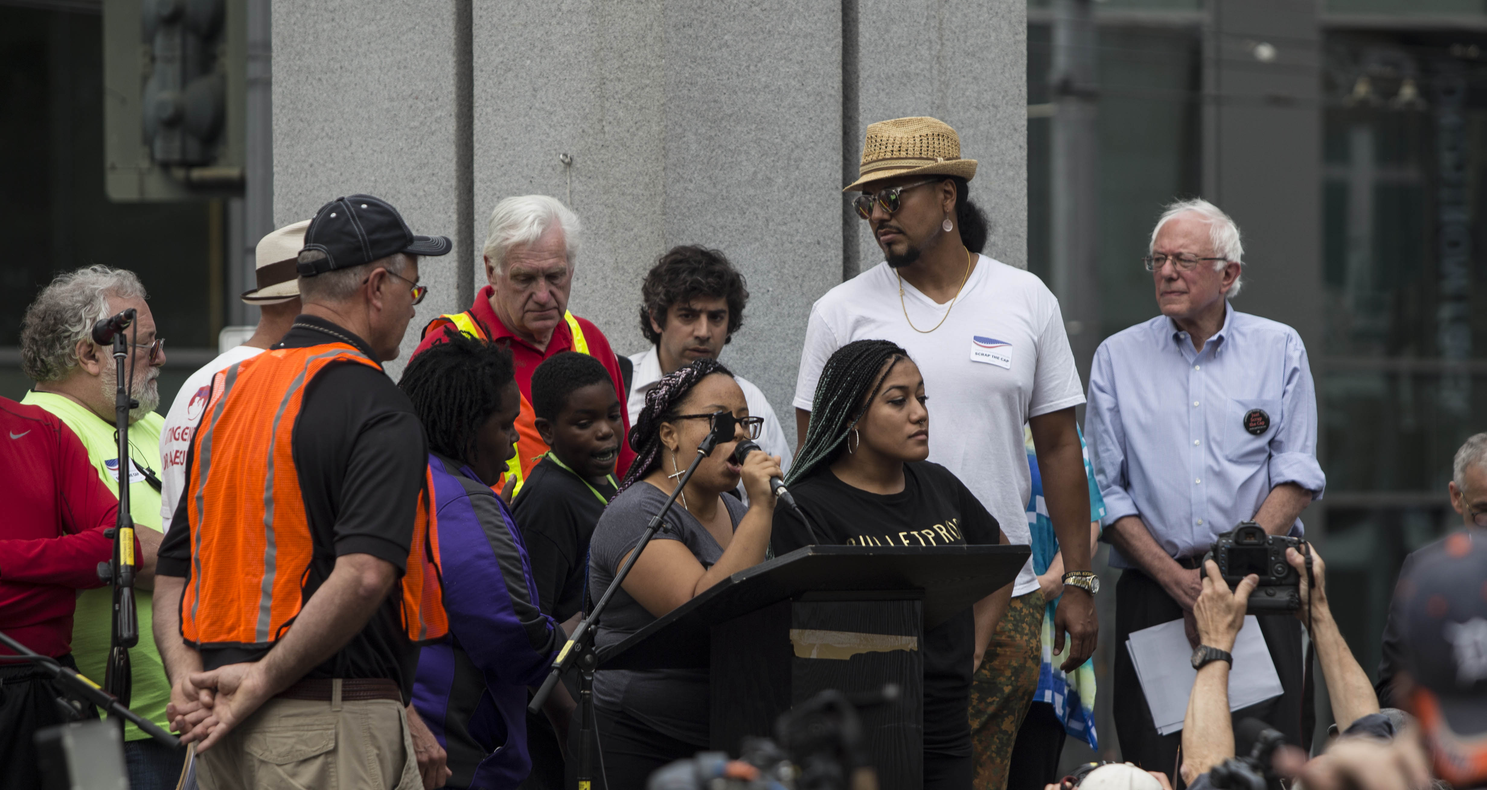 August 8, 2015 two BLM activists including Marissa Johnson (holding microphone) prevent Bernie Sanders from speaking at Westlake Park in Seattle